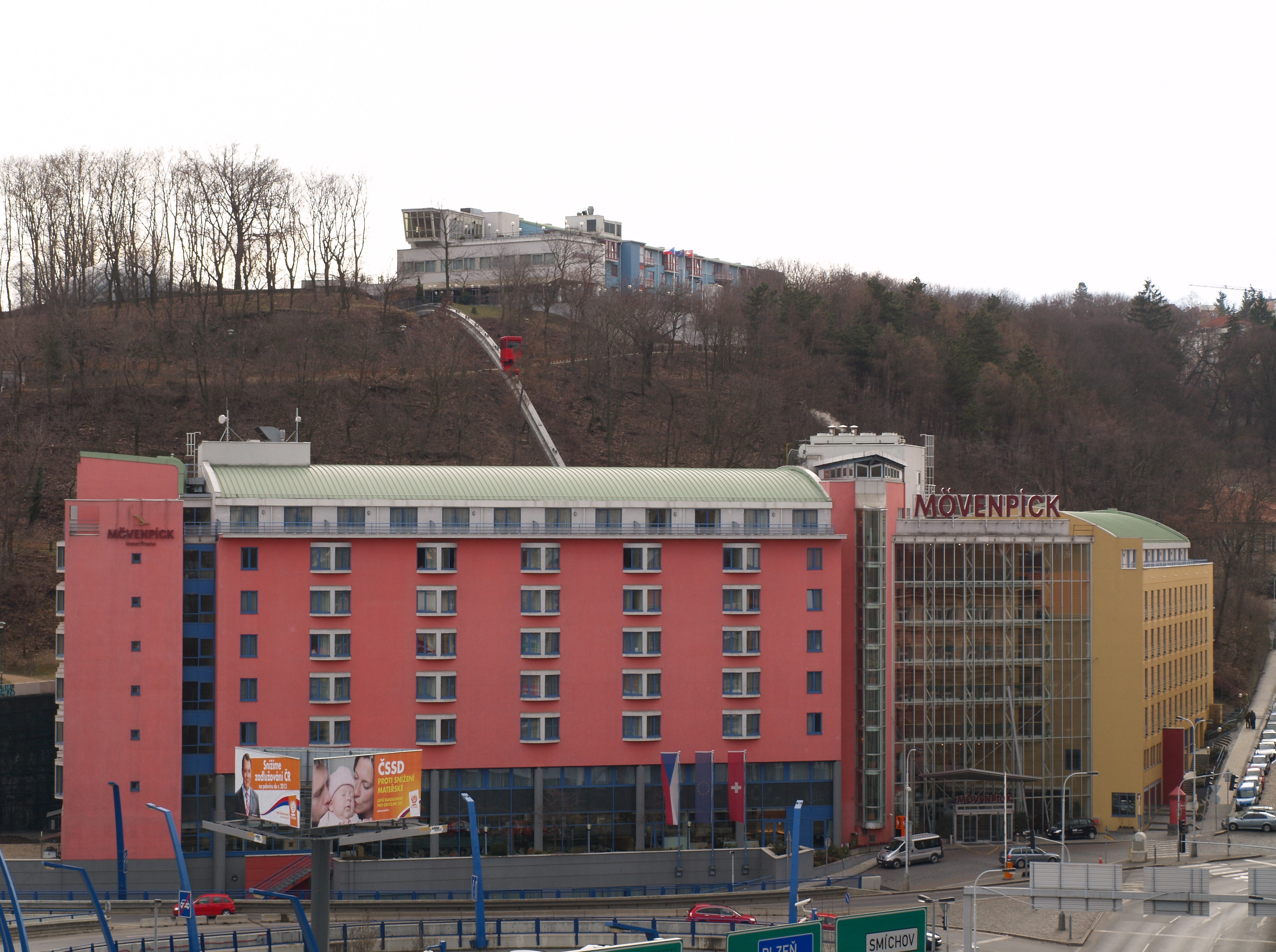 Hotel Mövenpick in Czech capital Prague with its uncommon outdoor elevator uphill to Mrázovka hill; taken from the opposite hill